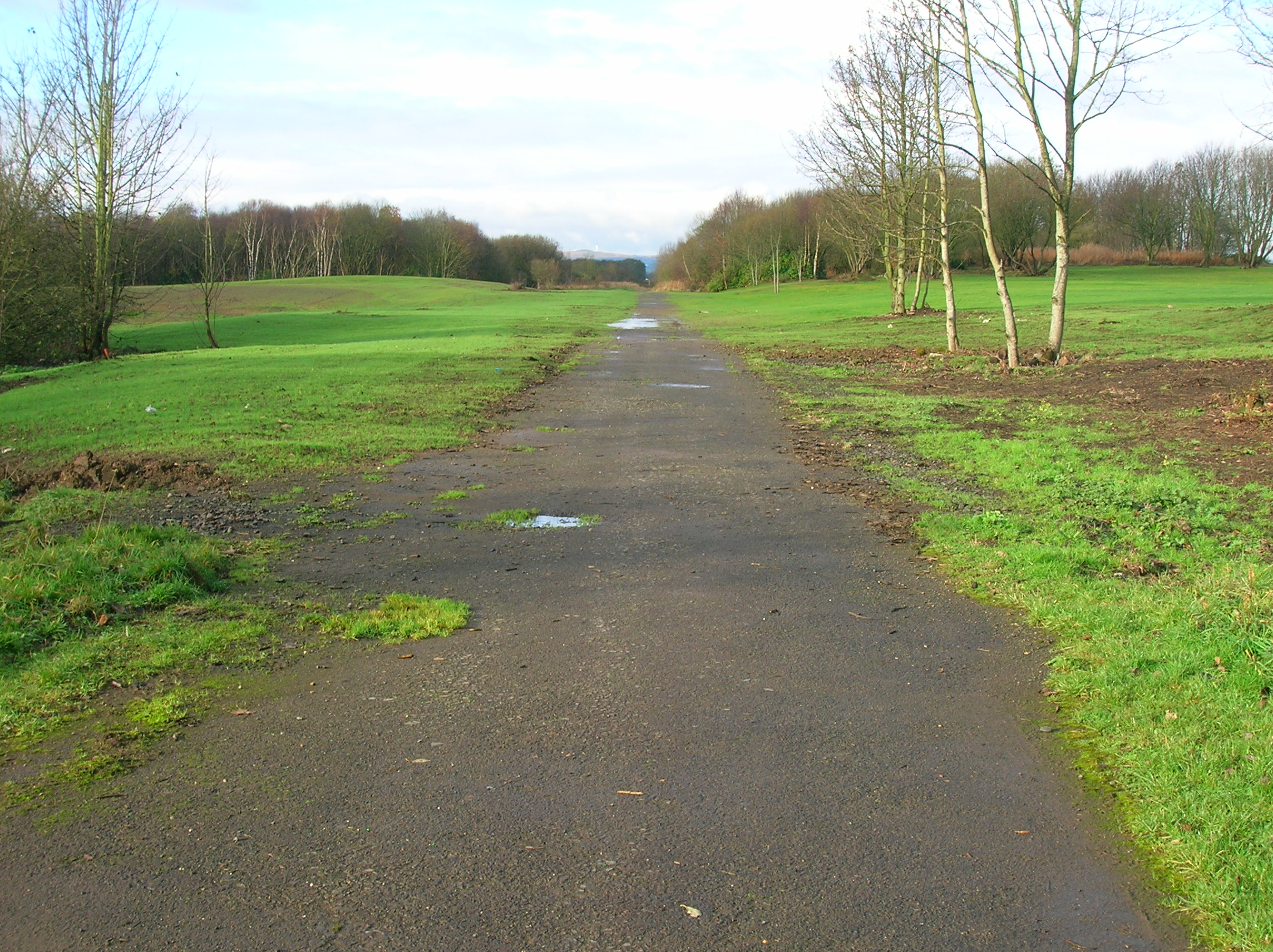 The remains of the Eglinton estate Long Drive near Stanecastle, Irvine, Ayrshire, Scotland